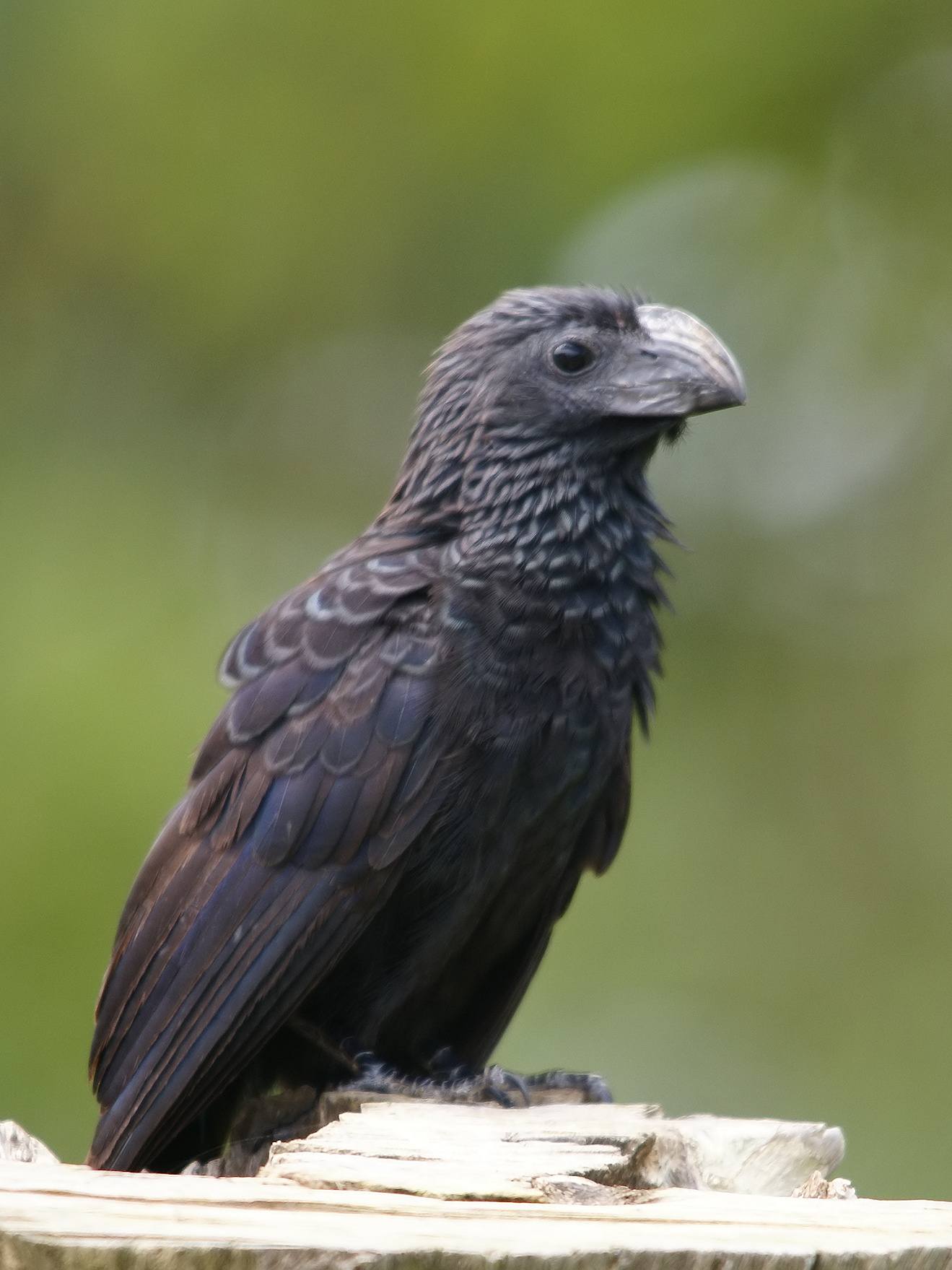 Groove-billed Ani near Mal Pais, Costa Rica.